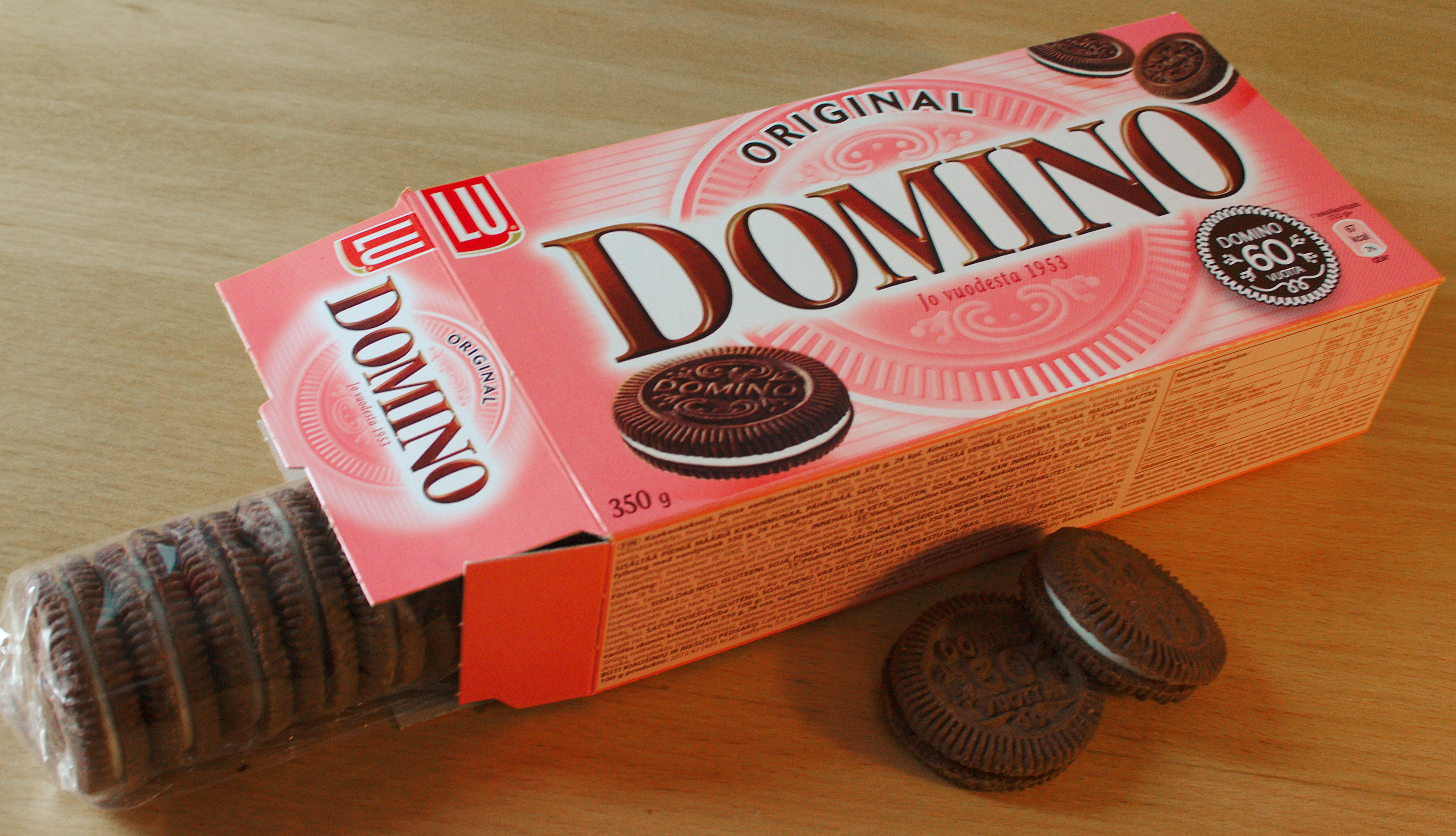 A pack of Finnish Domino cookies (60th anniversary special packaging)